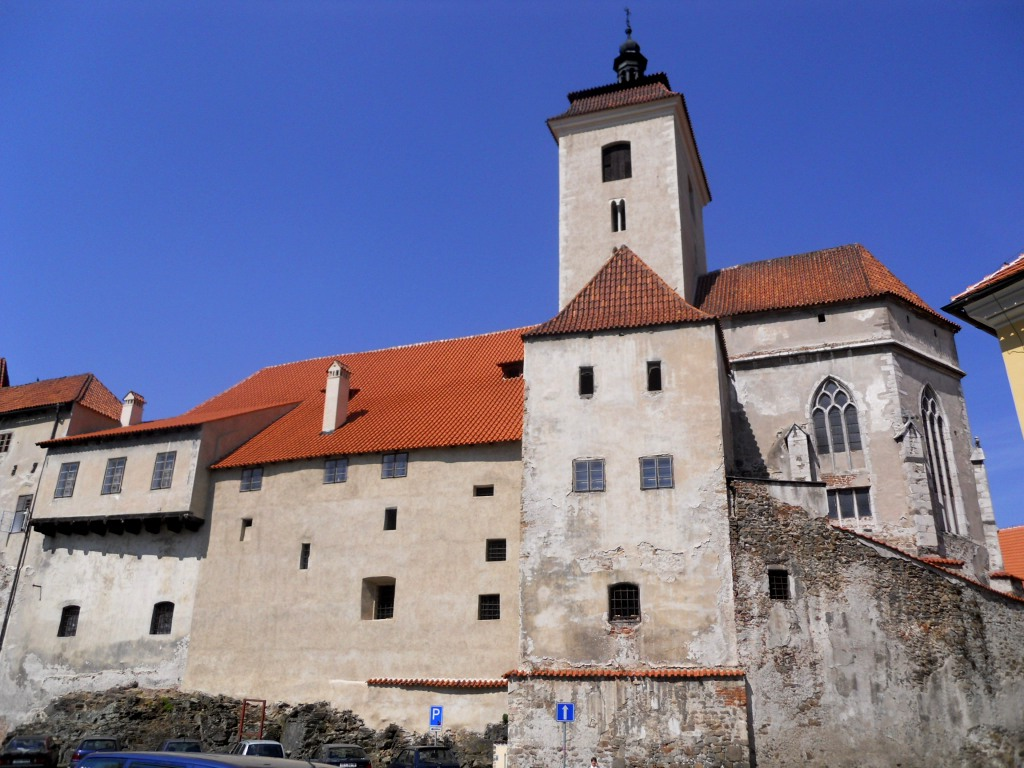 Strakonice castle and church from S